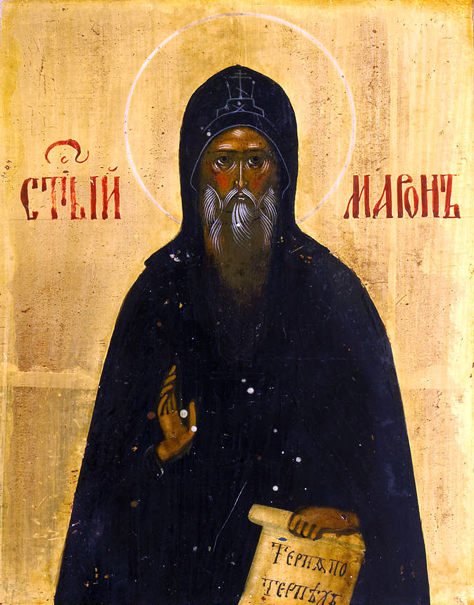 St. Maron the Syrian Hermit. Tempera, gold and gesso on wood, from Russia.